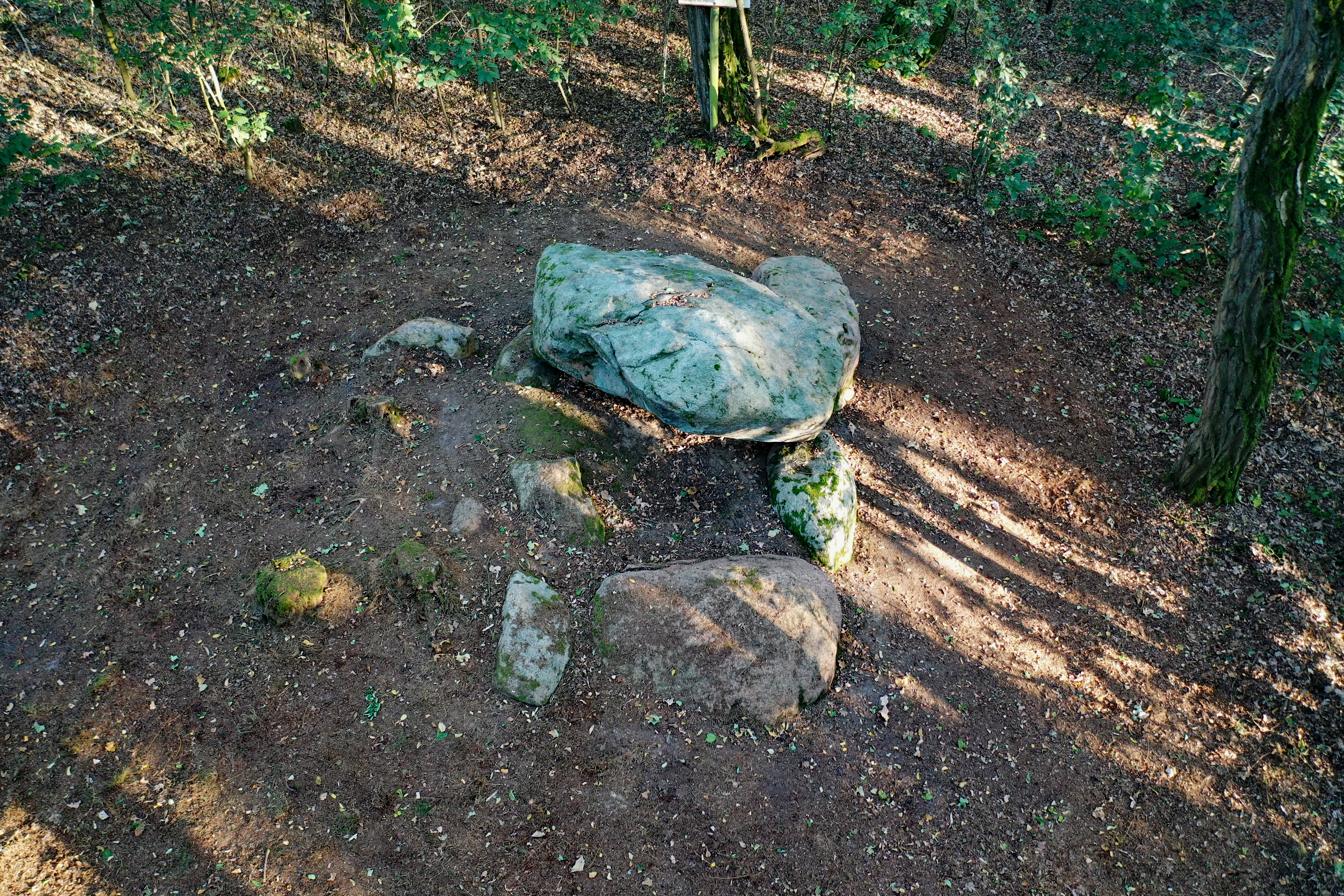 Megalithic in Altmark (Saxony-Anhalt, Germany) Lüdelsen 5